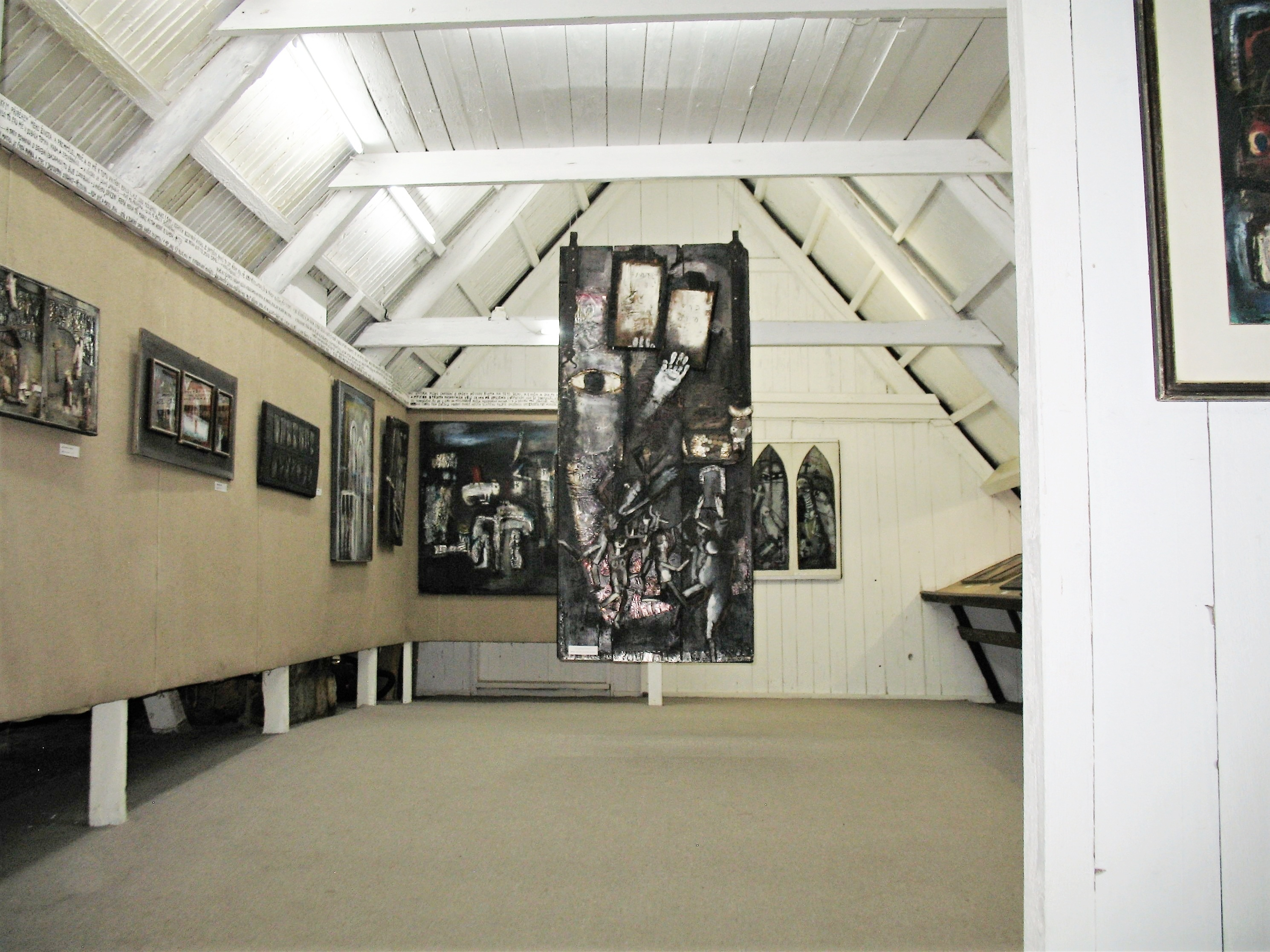 Josef Jíra Gallery in Malá Skála, Czech Republic